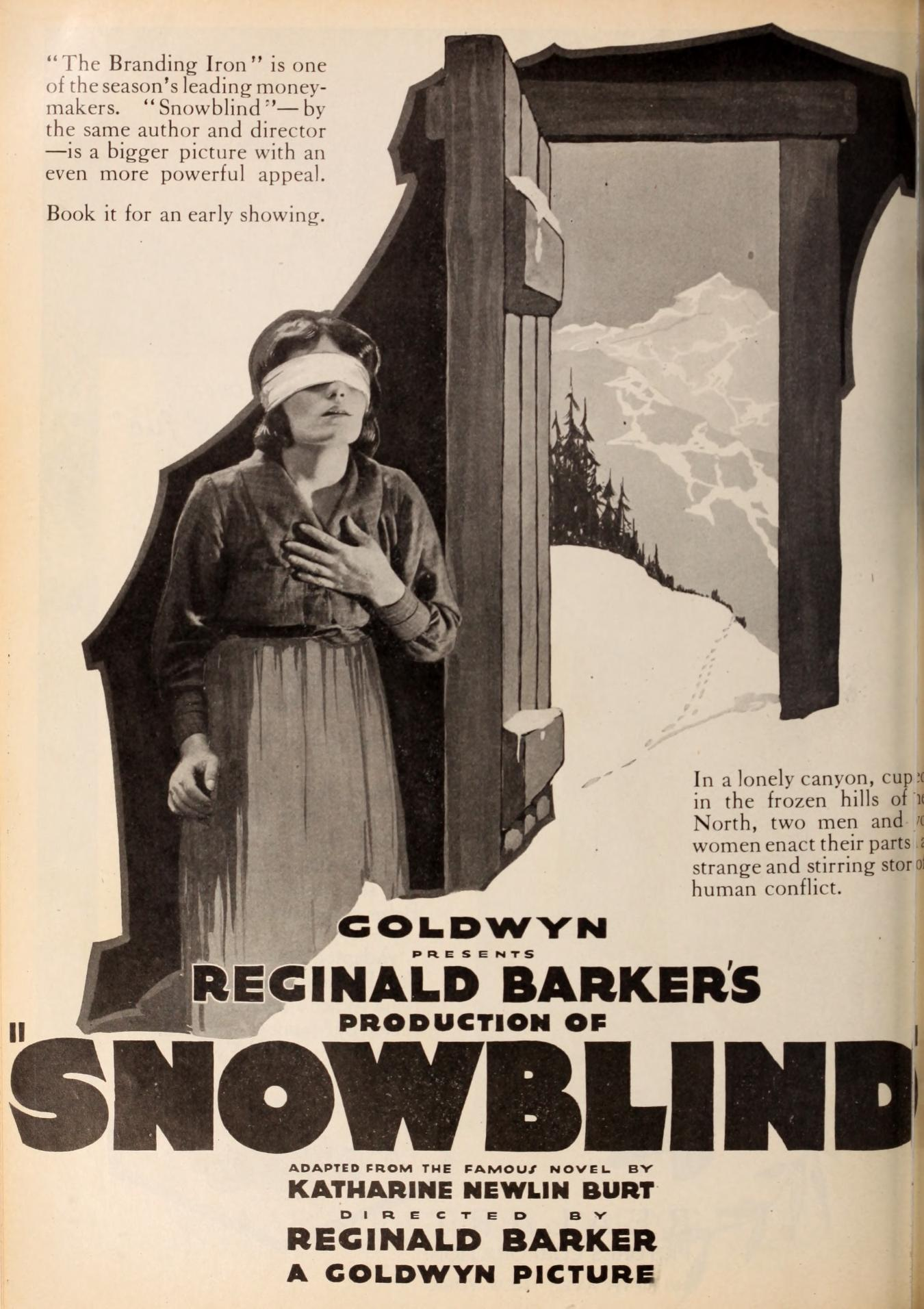 A magazine advertisement for the 1921 film Snowblind, produced by Goldwyn Pictures. The ad highlights the involvement of Katharine Newlin Burt, who wrote the original novel from which the film was adapted.